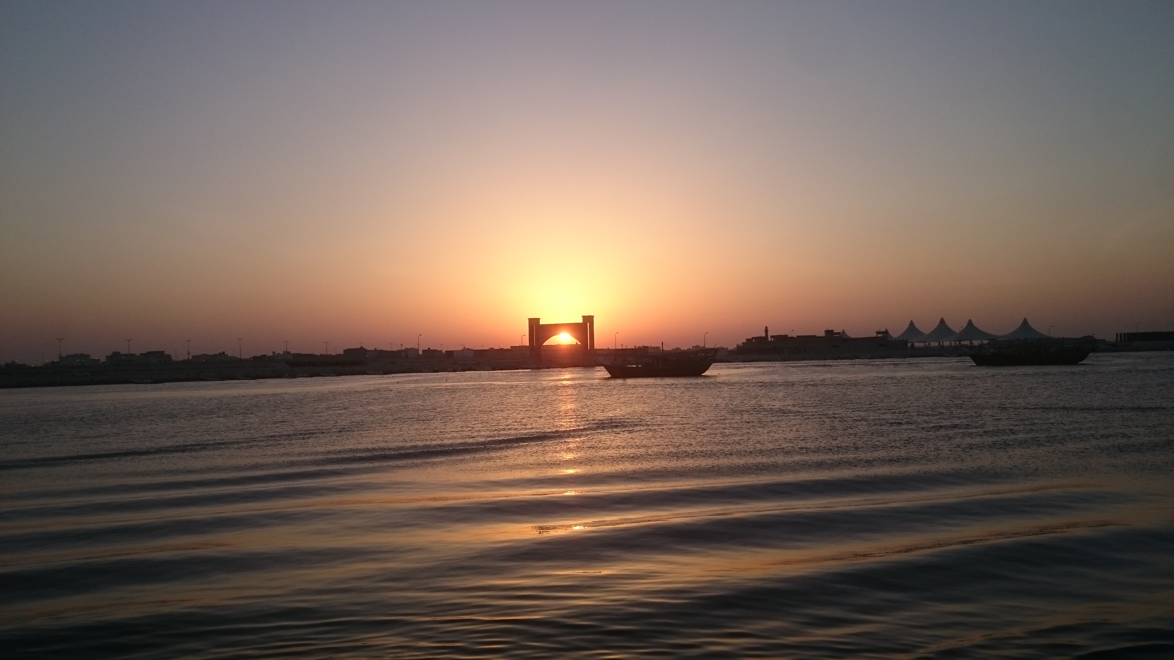 Qatif corniche in the morning